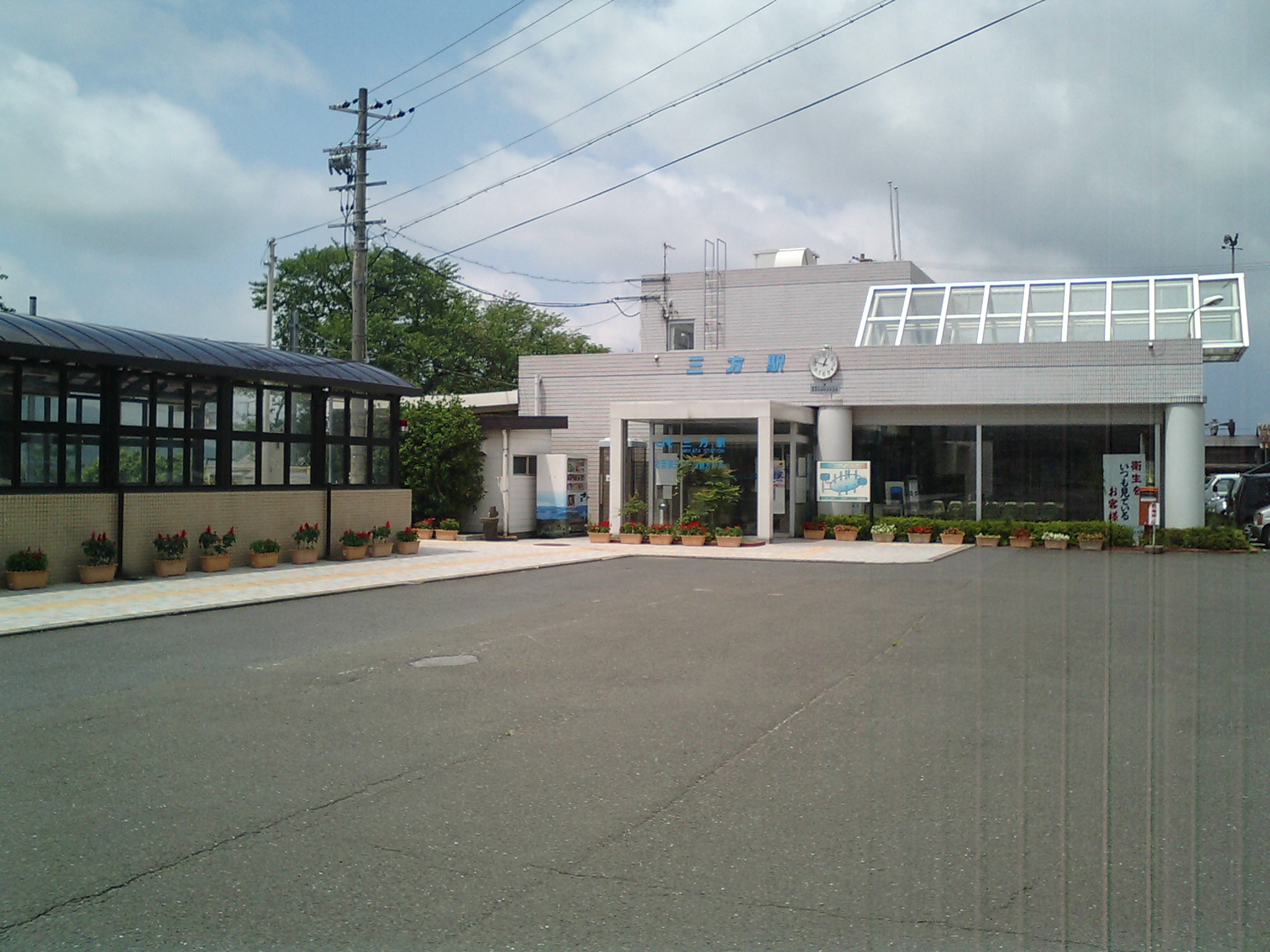 The image of Mikata station.